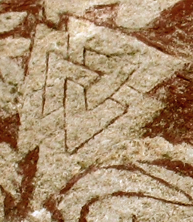 Valknut detail from Stora Hammar stone